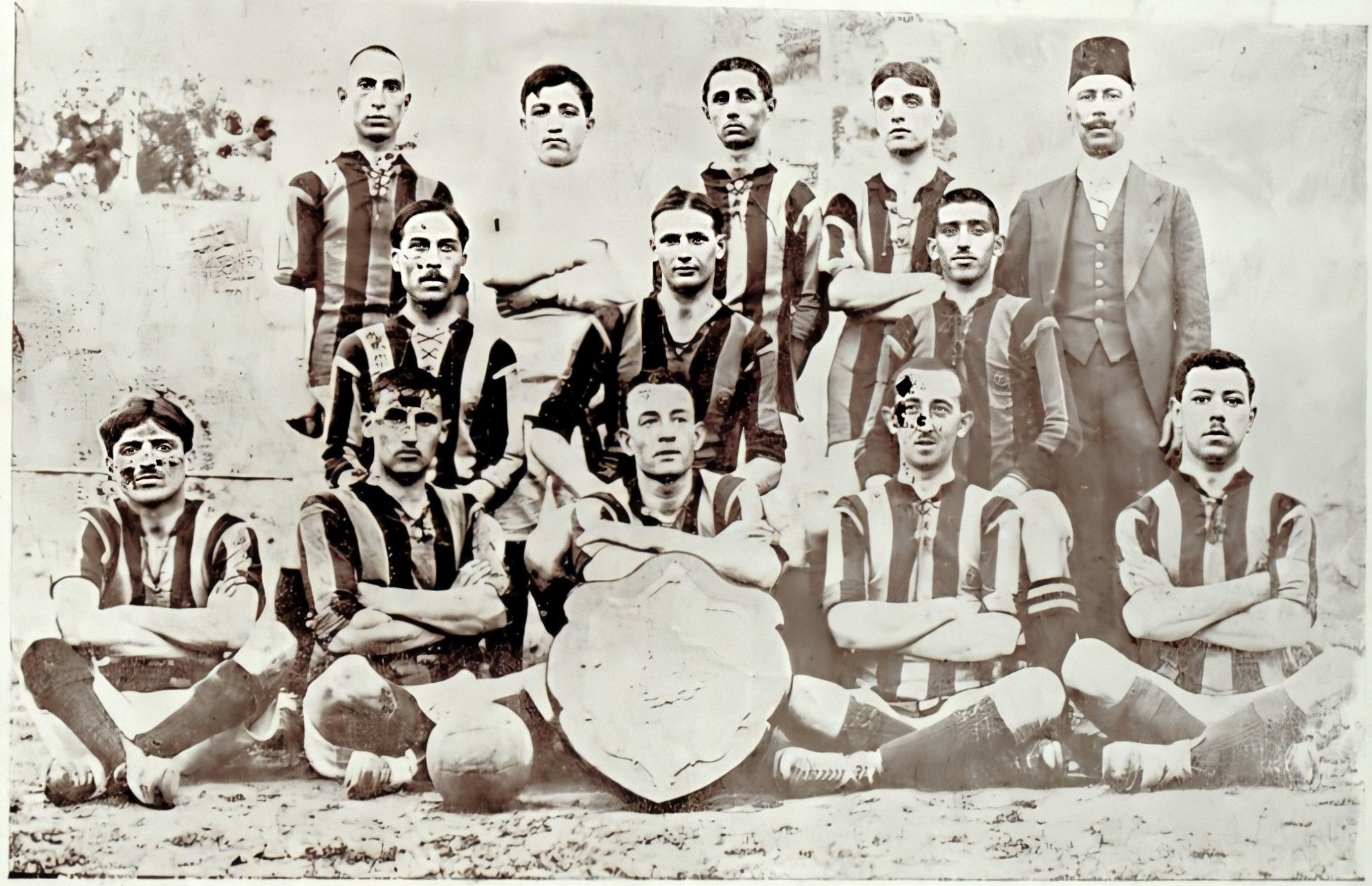 Fenerbahçe footbal team in 1913-14 season.